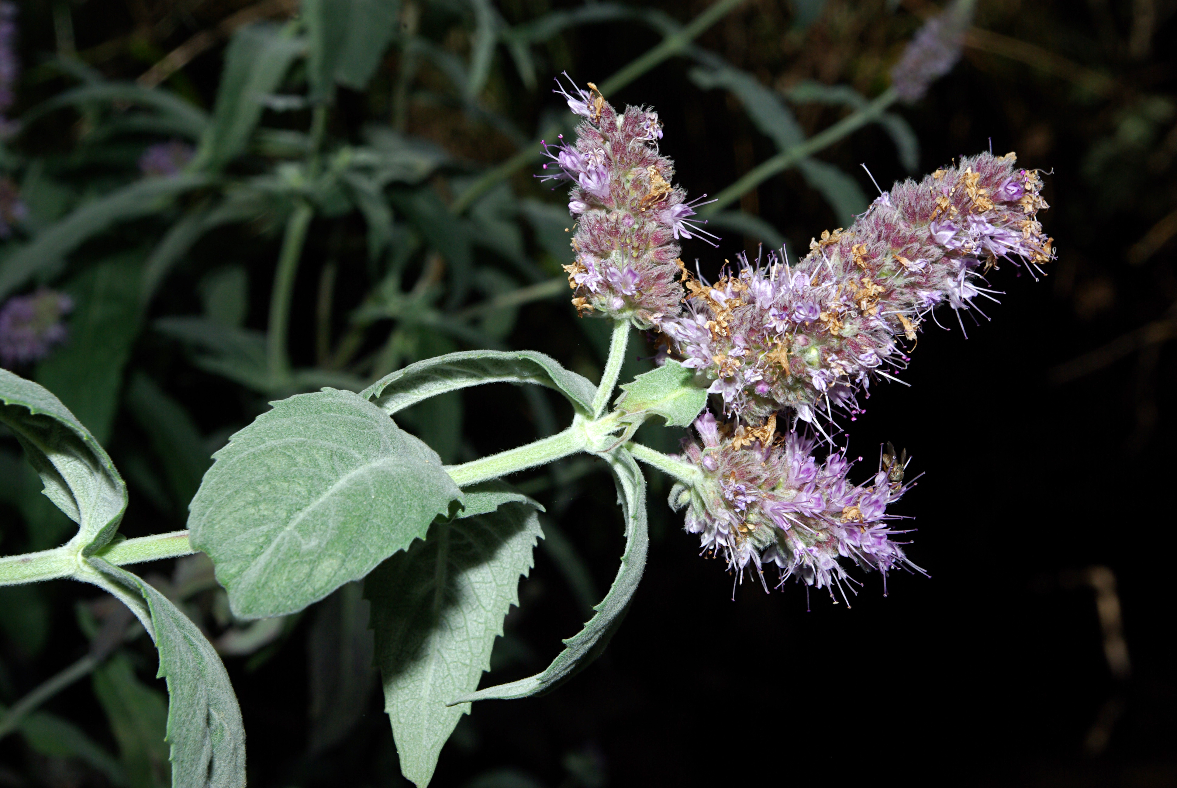 Horse Mint (Mentha longifolia). Near Riaño, León (Spain)